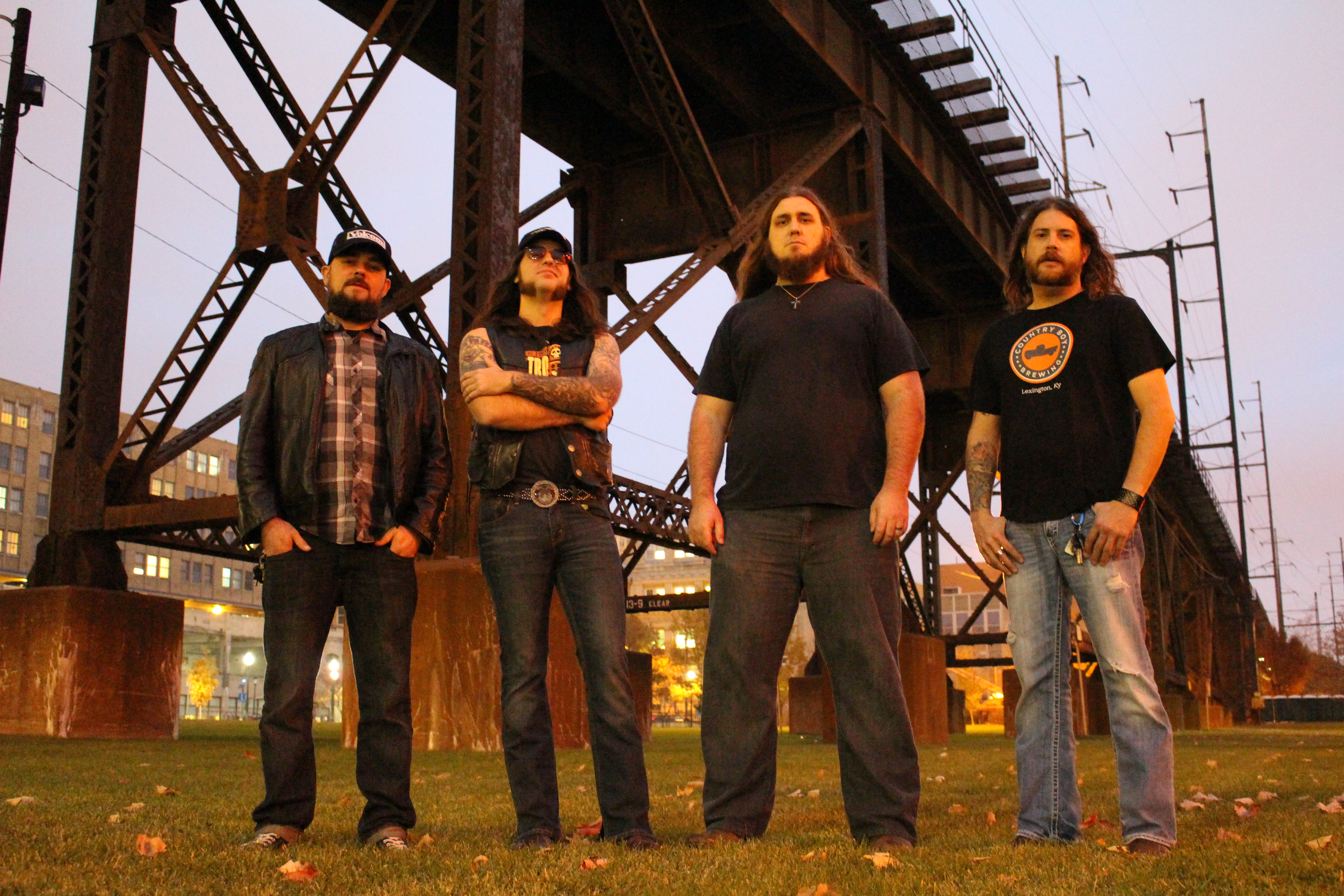 Lineup of the band Fifth on the Floor circa March 2014